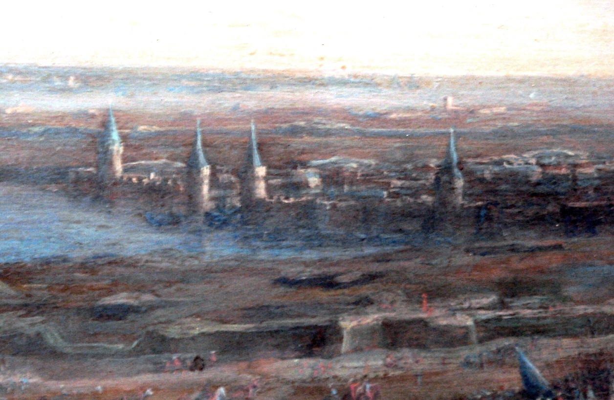 Entrance_to_La_Rochelle_harbour_Claude_Lorrain_1631